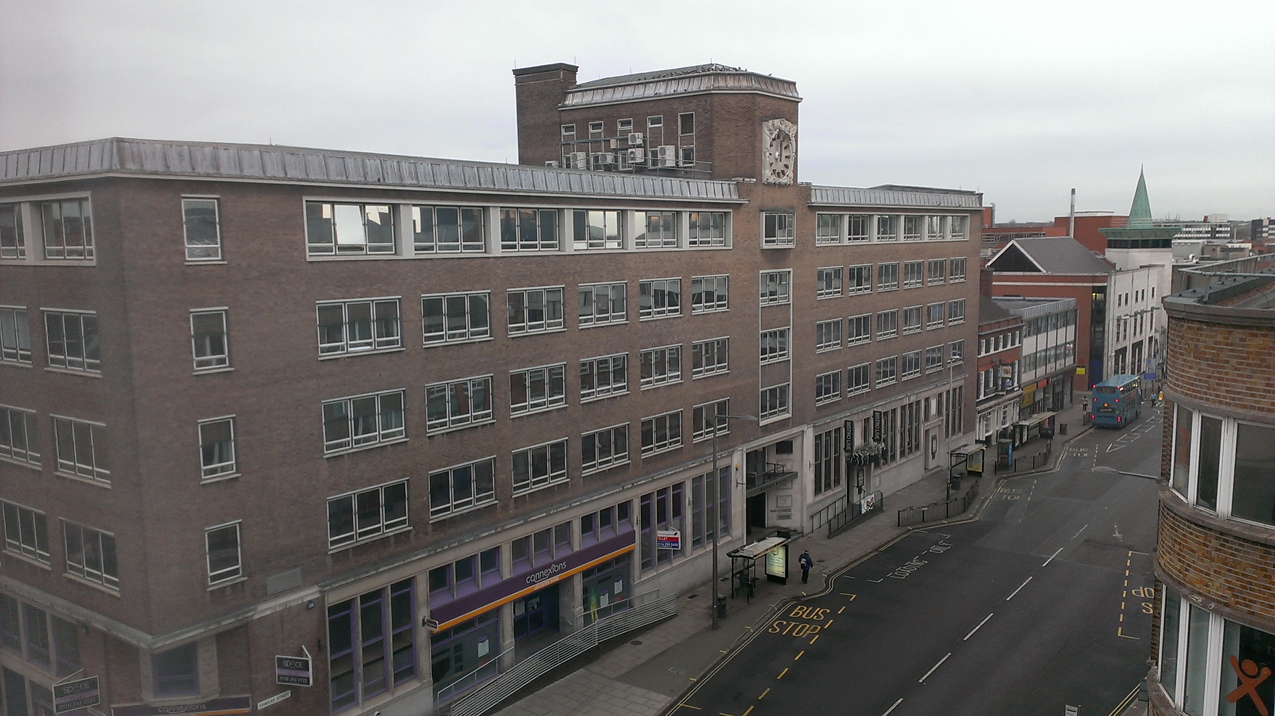 Halford House Charles Street Leicester LE1 1HA